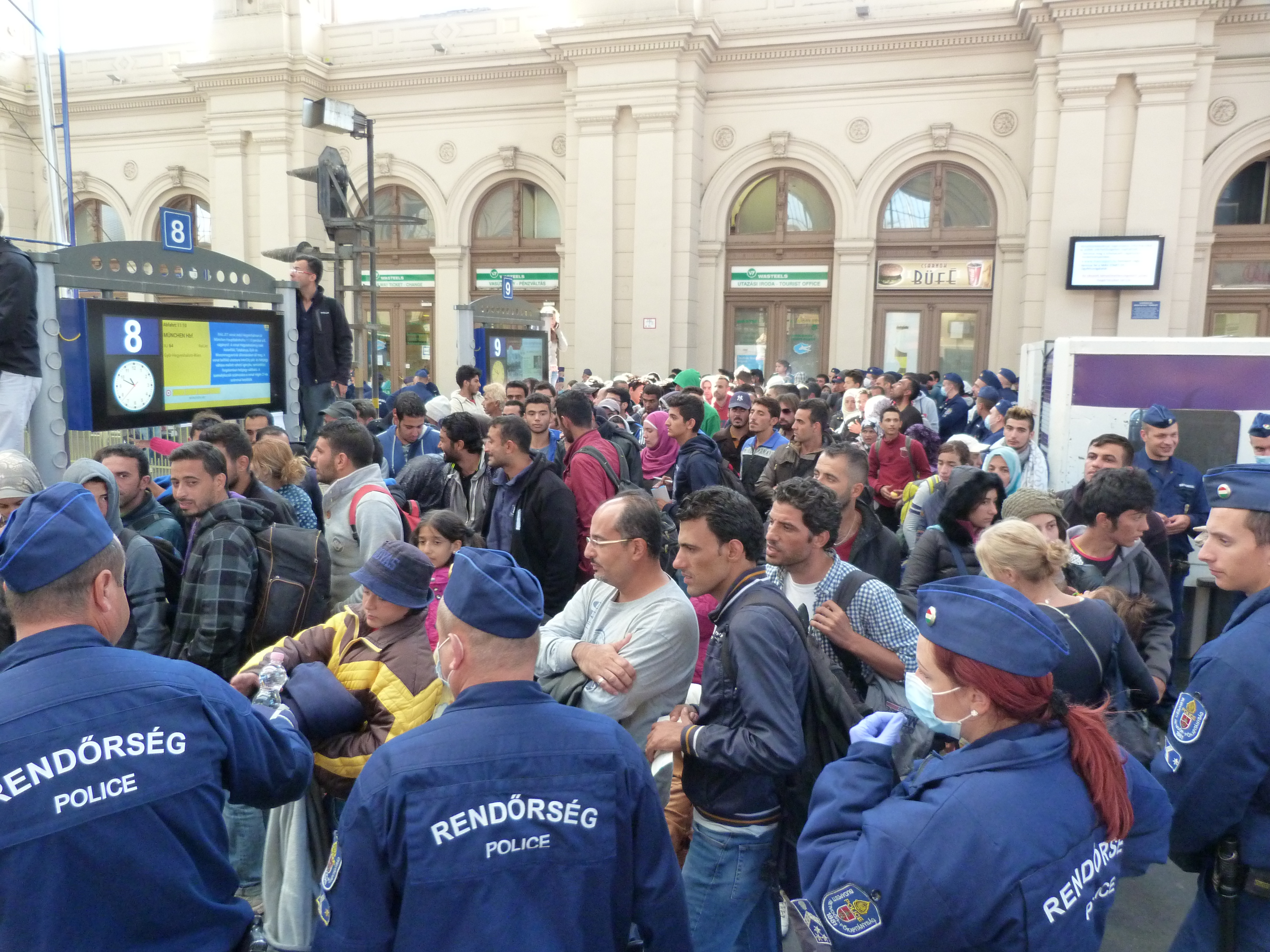 Live on Friday, the 4th of September, 2015. Fornoon. Budapest, at Eastern Railway Station. Entrance of the Metro Line, square in front of the Railway Station, Passage under the Baross square. Migrants at Eastern Railway Station.